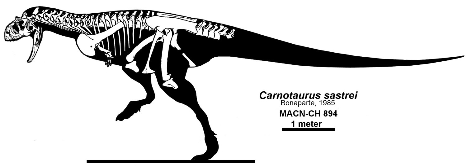 Skeletal reconstruction of Carnotaurus sastrei, an abelisaurid from northern Patagonia, southern Argentina